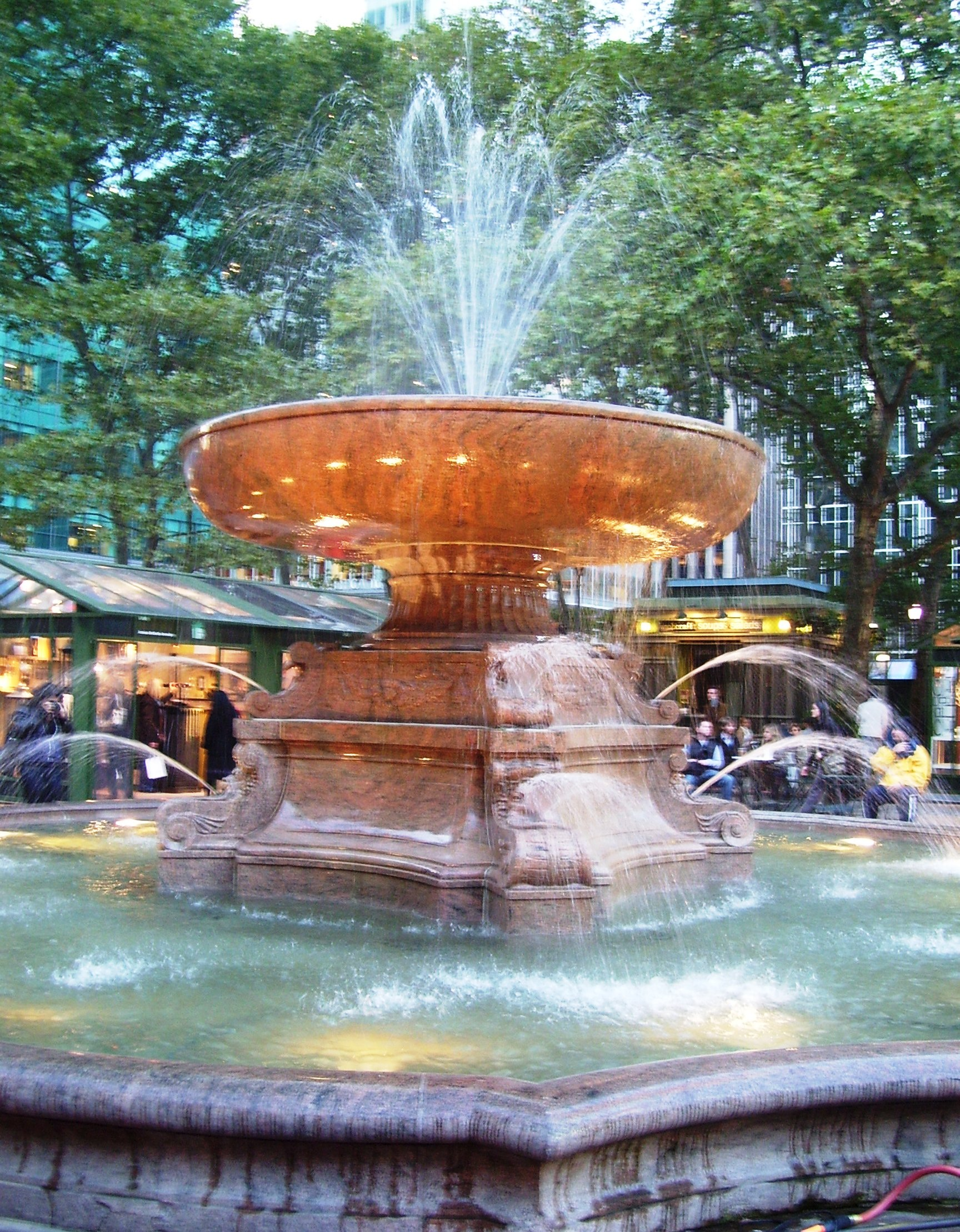 The Josephine Shaw Lowell Memorial Fountain, the fountain in Bryant Park in Manhattan, New York City.